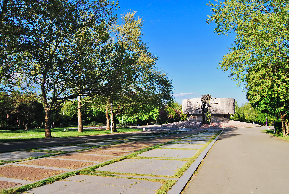 The Pantheon in the sea garden of Burgas, Bulgaria.